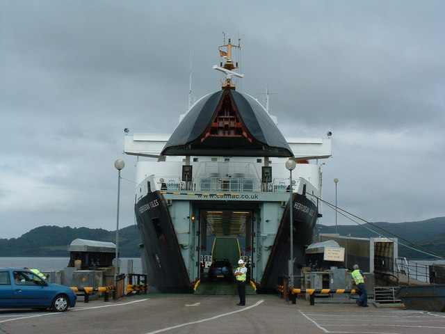 Kennacraig to Islay ferry, MV Hebridean Isles. A look at the business end of the Calmac ferry